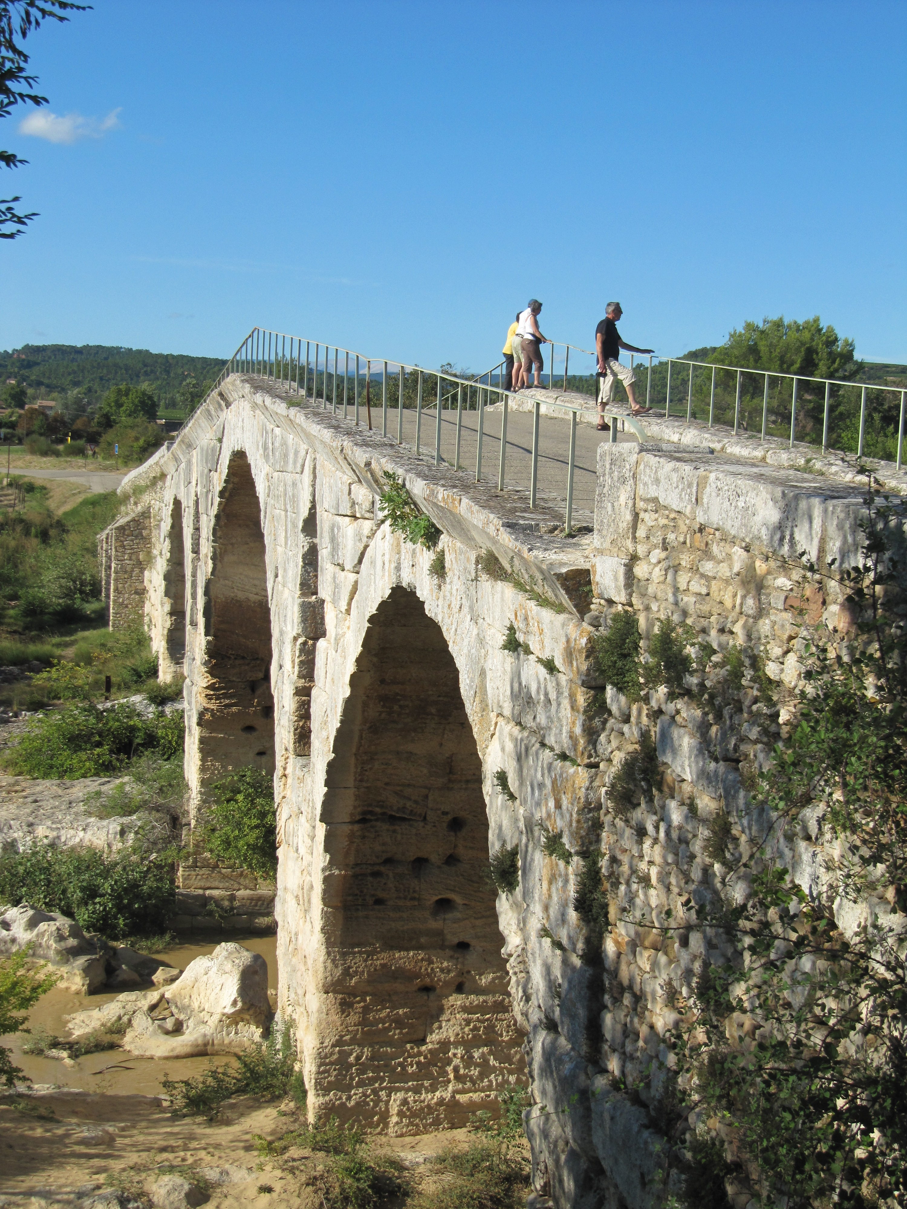 Pont Julien, Provence